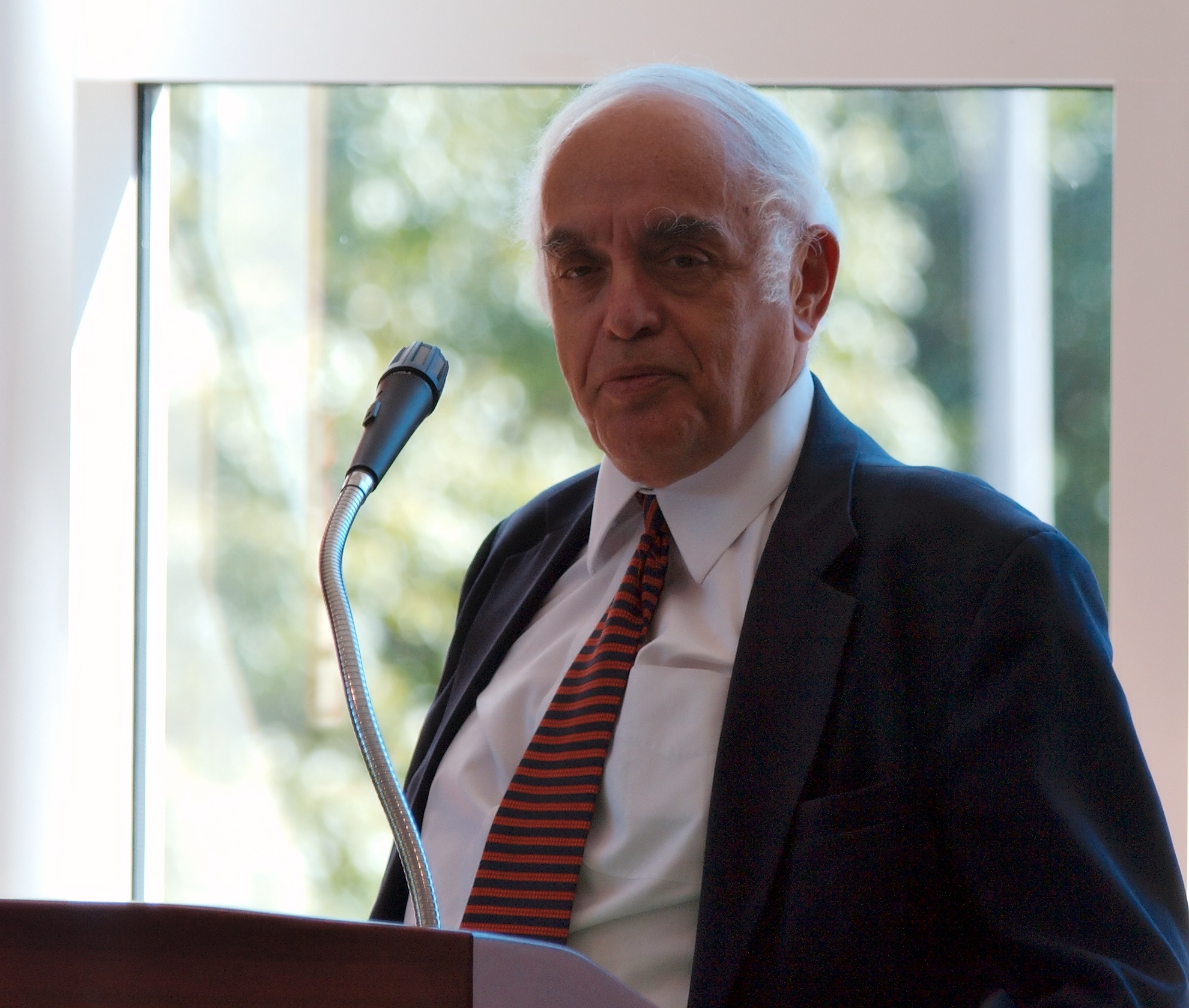 Robert Novak talking about his memoir book "Prince of Darkness, 50 years reporting in Washington" at the Illini Union Bookstore in Champaign, Illinois